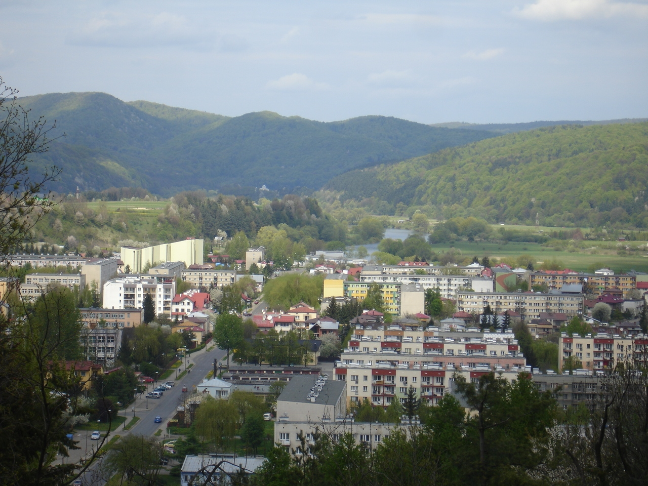 Wójtostwo subdistrict, Sanok 2008